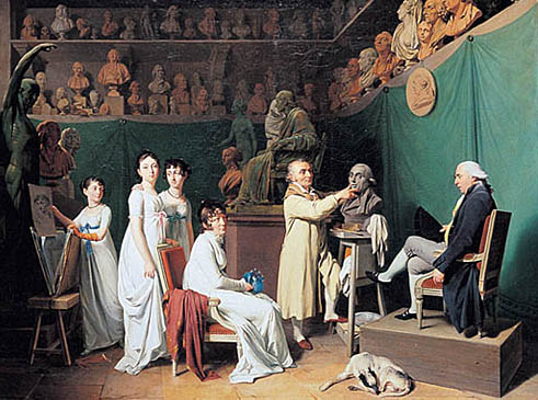 L'atelier de Houdon. The painting shows the studio of French sculptor Jean-Antoine Houdon. The sculptor's model is an eminent mathematician, possibly Gaspard Monge or Pierre-Simon Laplace.